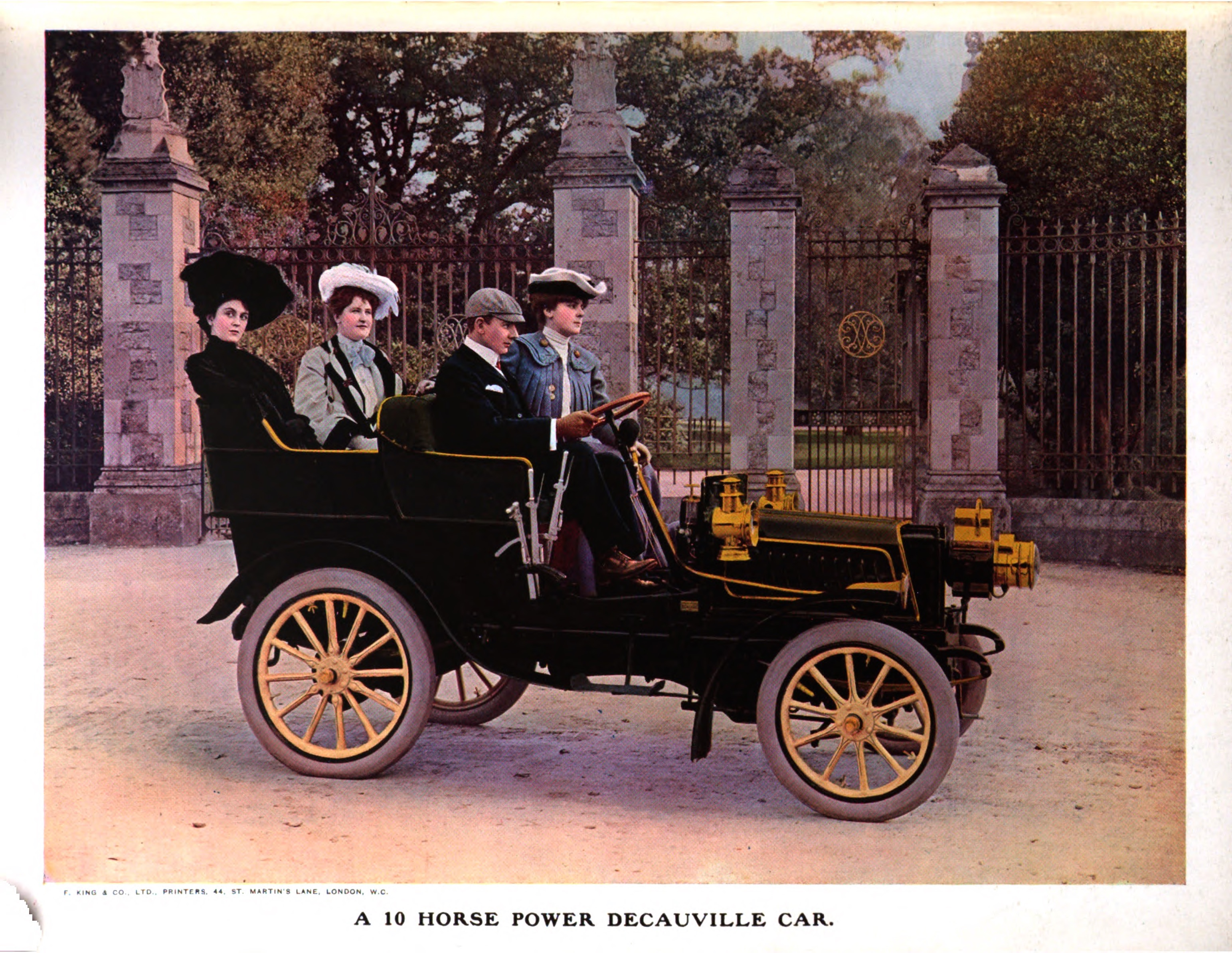 1903 Decauville 10 horsepower car colour image printed and published in January 1903